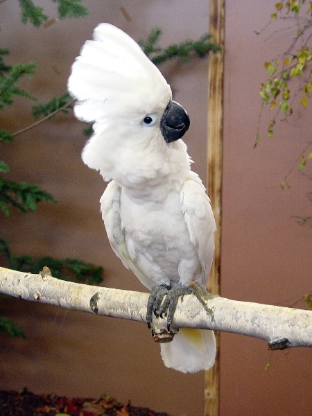 Umbrella Cockatoo (Cacatua alba) perching on a branch.